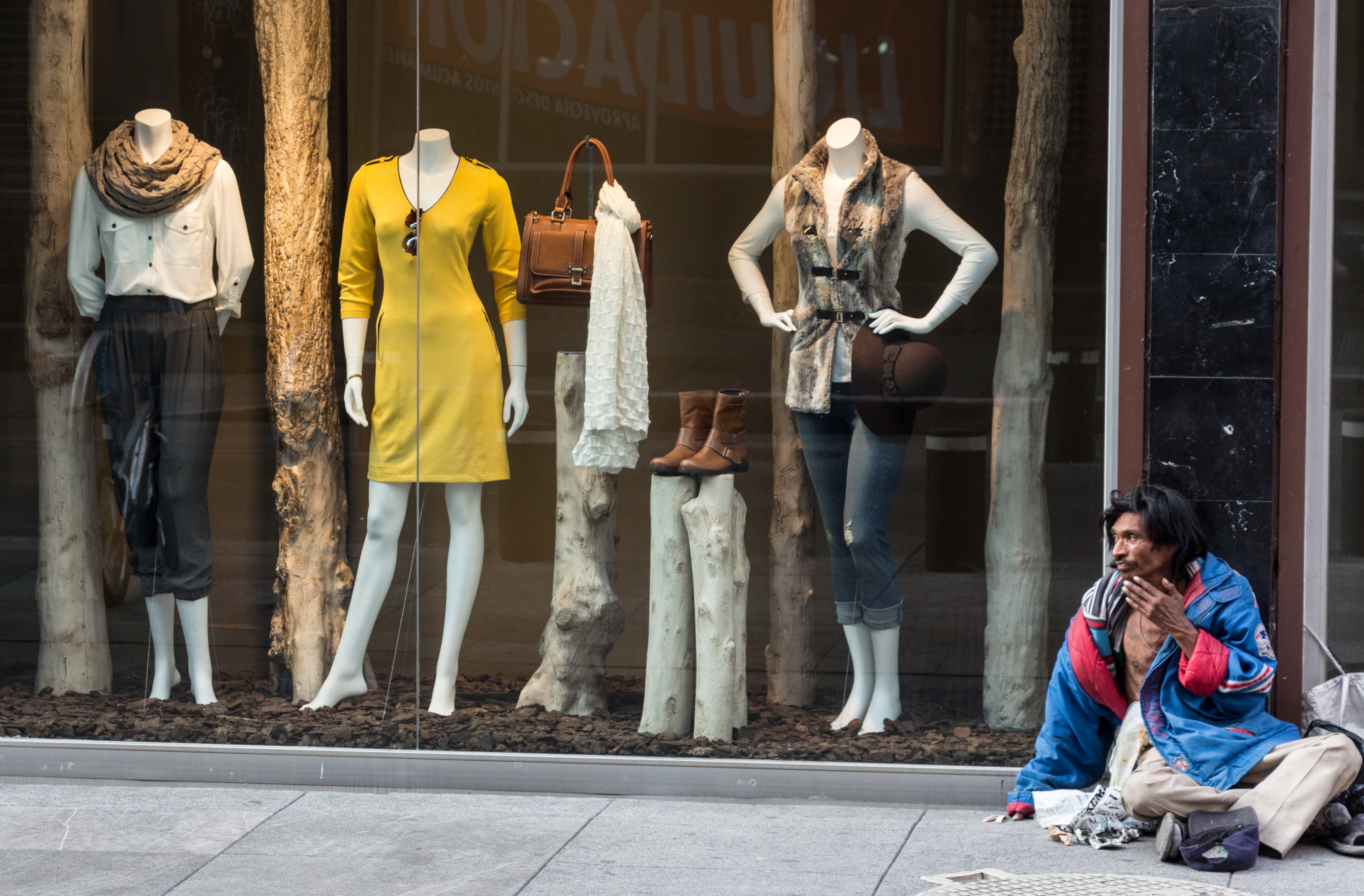 A homeless man in front of a store window.